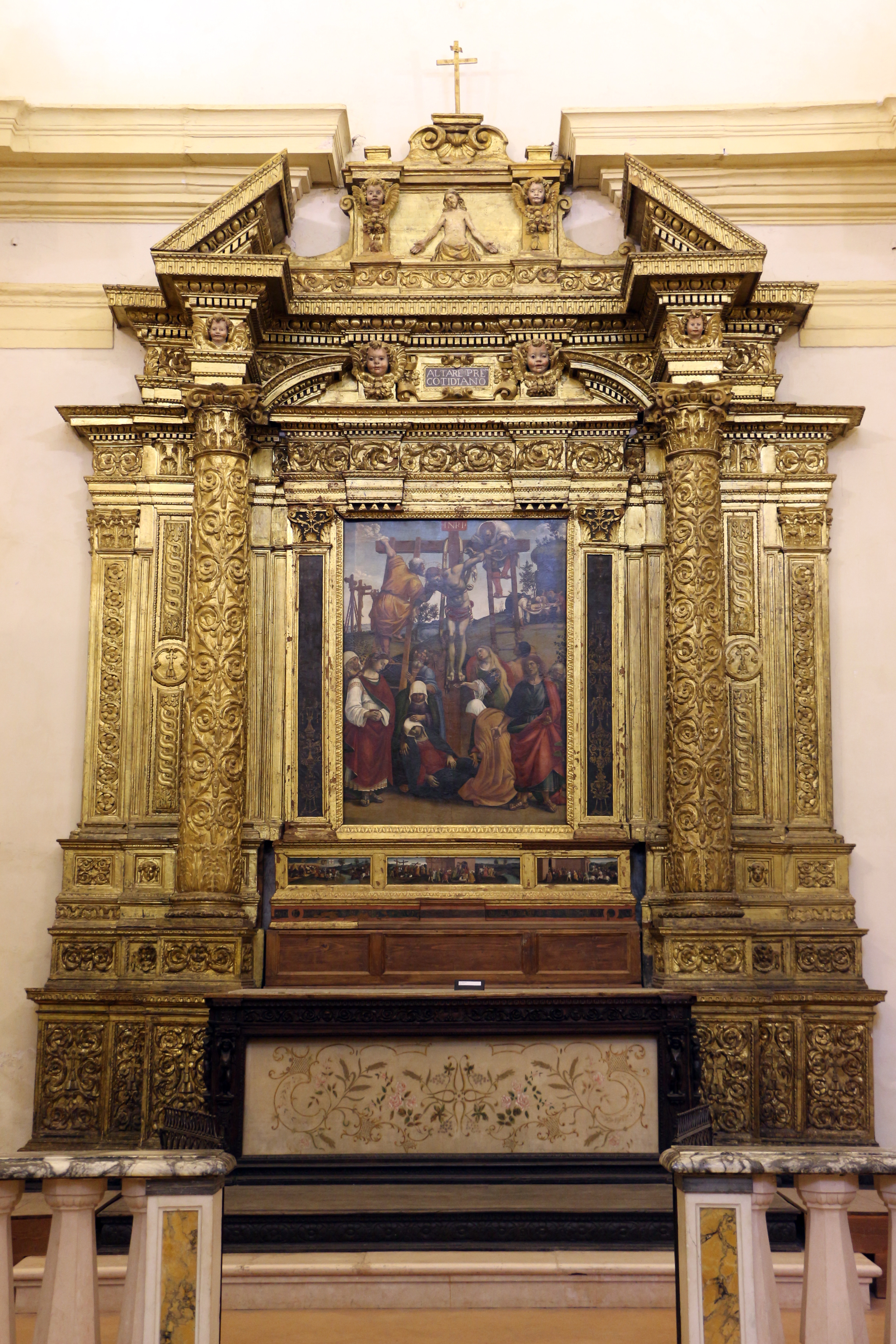 Santa Croce (Umbertide)